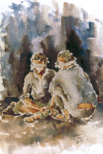 WAITING INTERROGATION,199th LT INF BG, Watercolor, by James Pollock, CAT IV, 1967, Courtesy of the National Museum of the U.S. Army